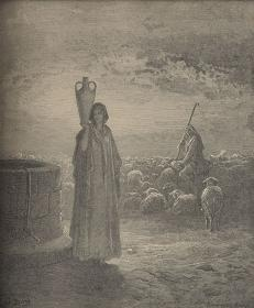 Author:Gustave Doré Fair use: image whose copyright has expired (c. 1855) copiado dos arquivos da própia wikipédia ({image whose copyright has expired (c. 1855))) (231 × 280 pixel, file size: 11 KB, MIME type: image/jpeg)